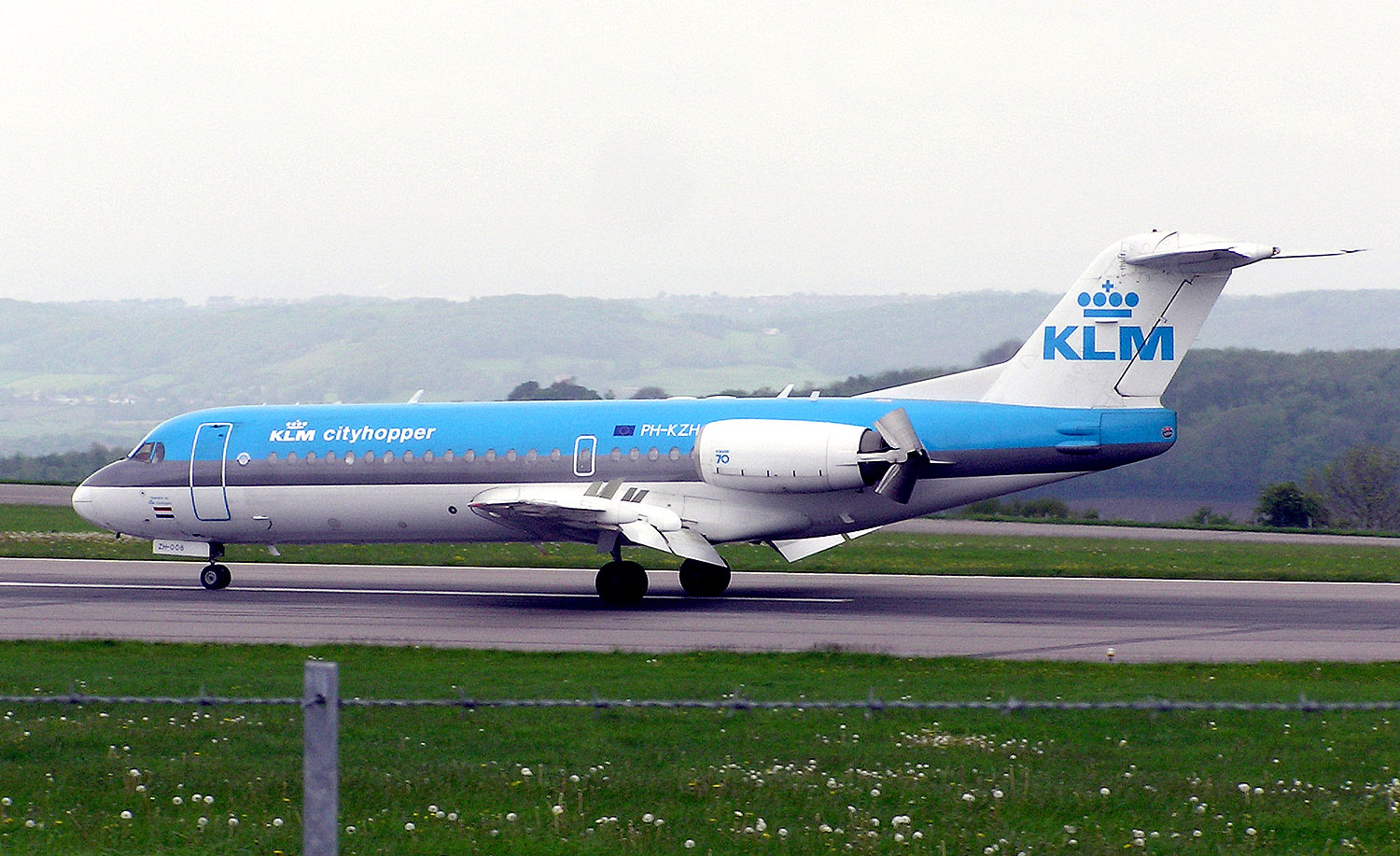 KLM Fokker 70 with reverse thrust applied, after touchdown at Bristol Airport, Bristol, England. Taken by Adrian Pingstone in May 2004 and released to the public domain.